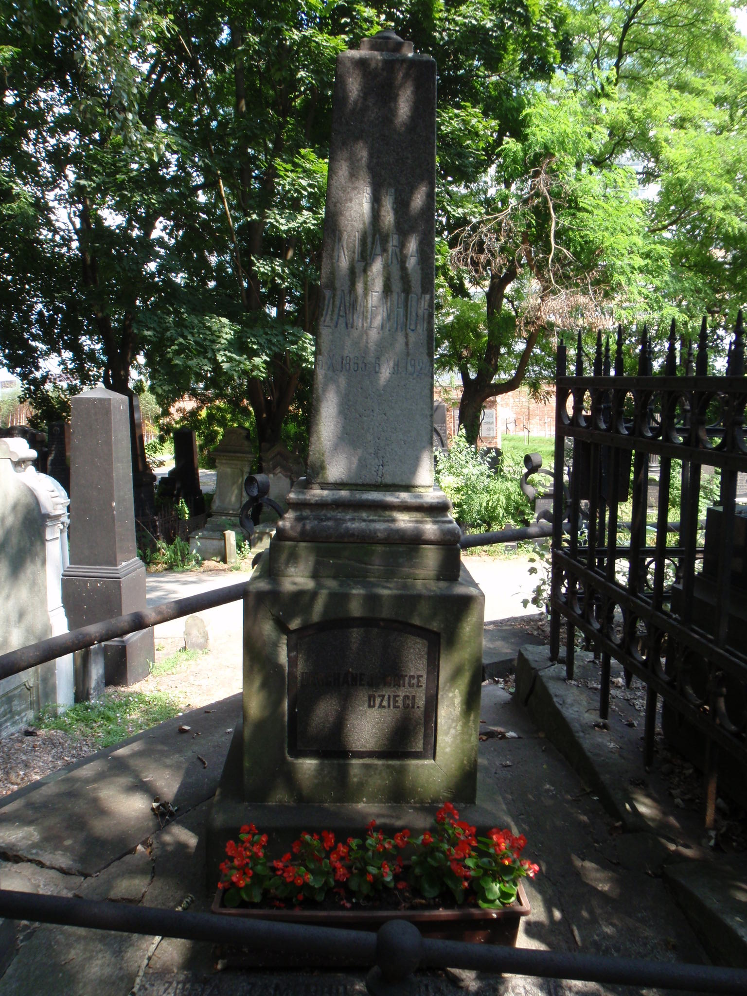 Grave of Klara Zamenhof wife of Ludwik Zamenhof